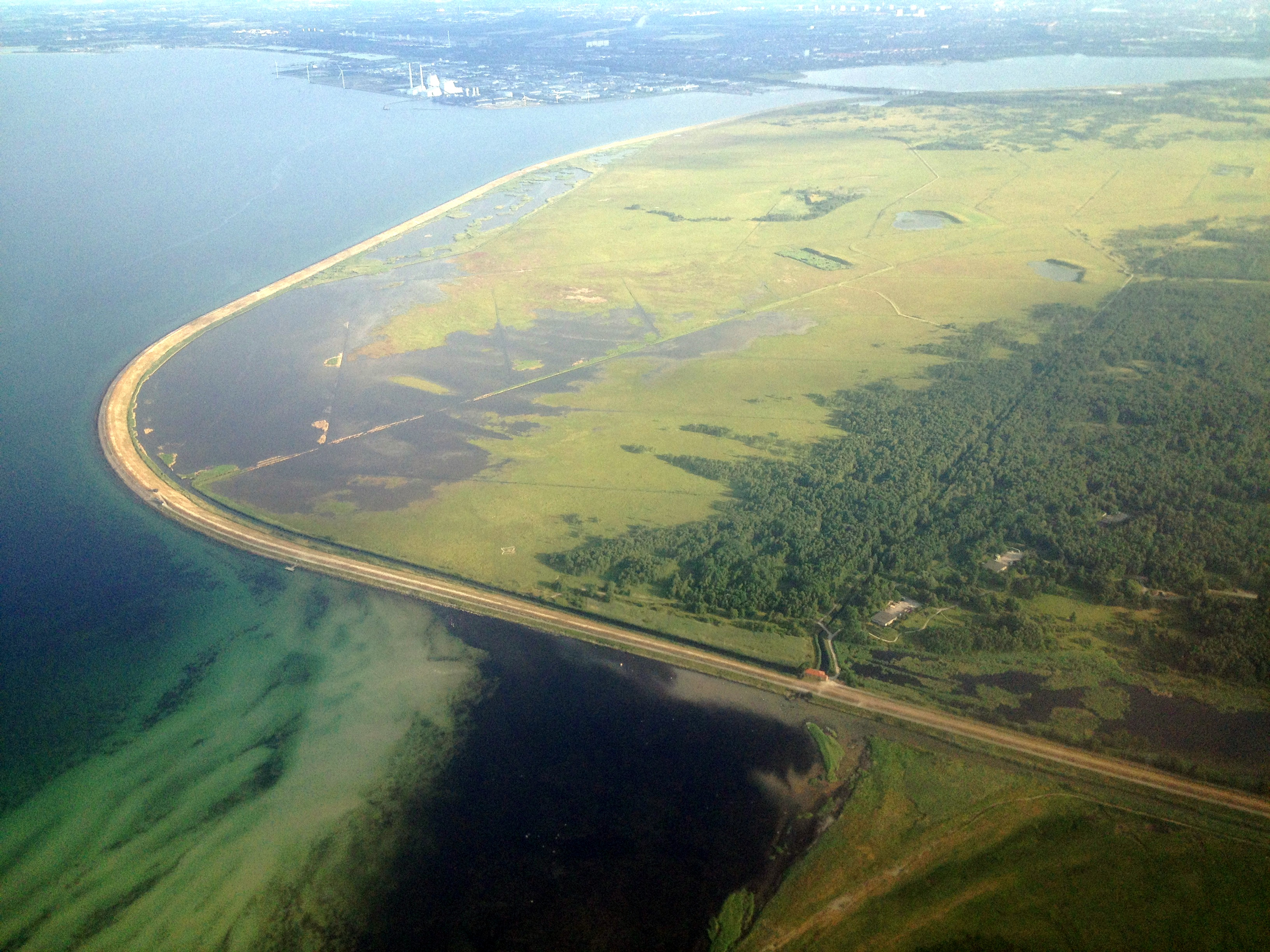 Aerial view of Copenhagen.